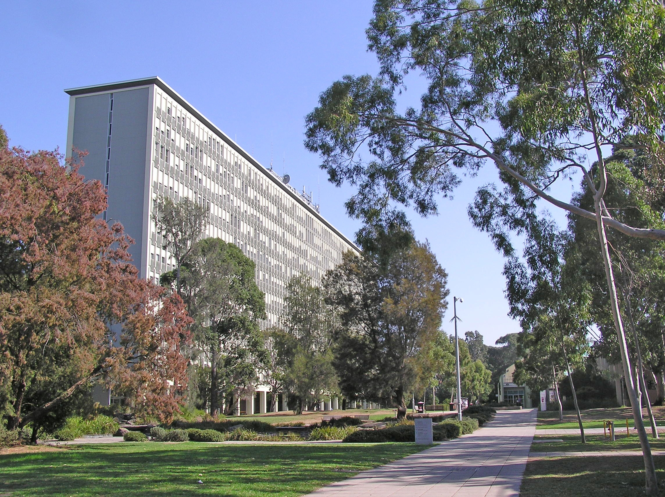 Monash University Clayton campus - Robert Menzies Building viewed near Menzies fountain